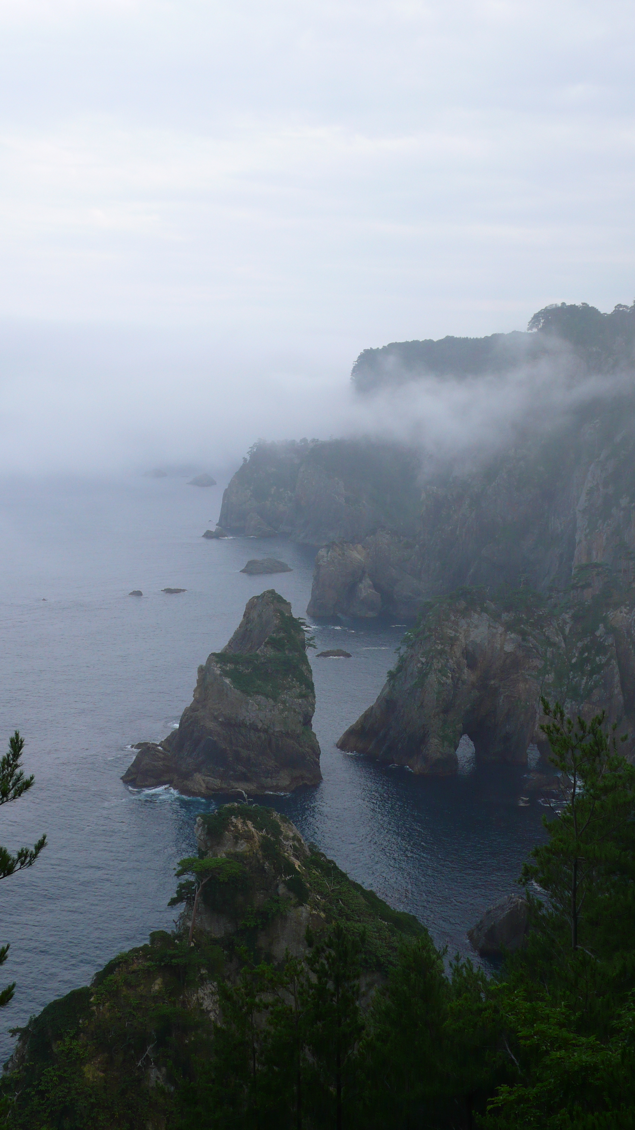 Kitayamazaki in the fog.